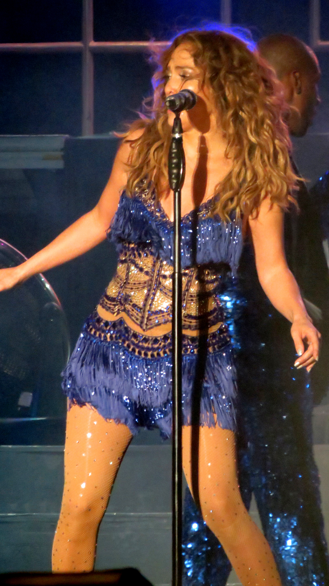 Jennifer Lopez live at the Pop Music Festival in São Paulo, Brazil.